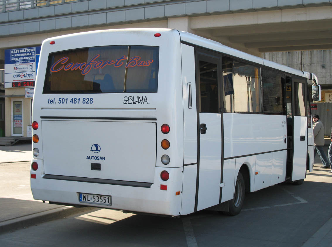 Autosan H7-10.06MB Solina bus in Kraków, Poland. Built 2006, Comfort Bus from Wadowice operator.